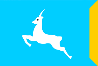 Old Flag of Matrouh governadorate Imatge feta per J. Ollé